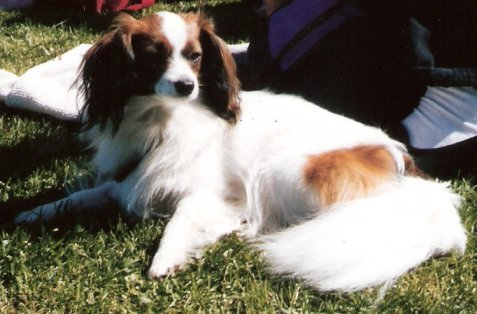 Sable-white Phalène female.